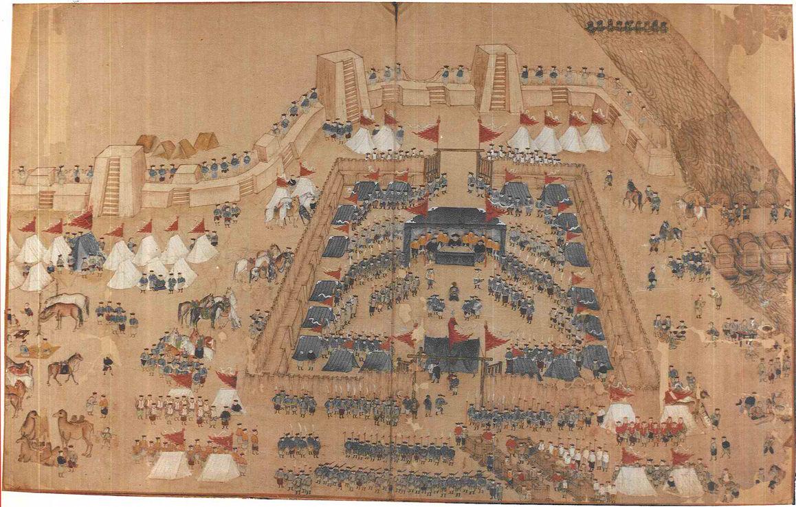 Scene of the Siege of Lianzhen, May 1854 - March 1855.The Qing army captured the rebel army after ten months of siege and captured the leader of the Taiping Northern Expedition Lin Feng-Xiang. From Ten scenes recording the retreat and defeat of the Taiping Northern Expeditionary Forces,February 1854-March 1855.